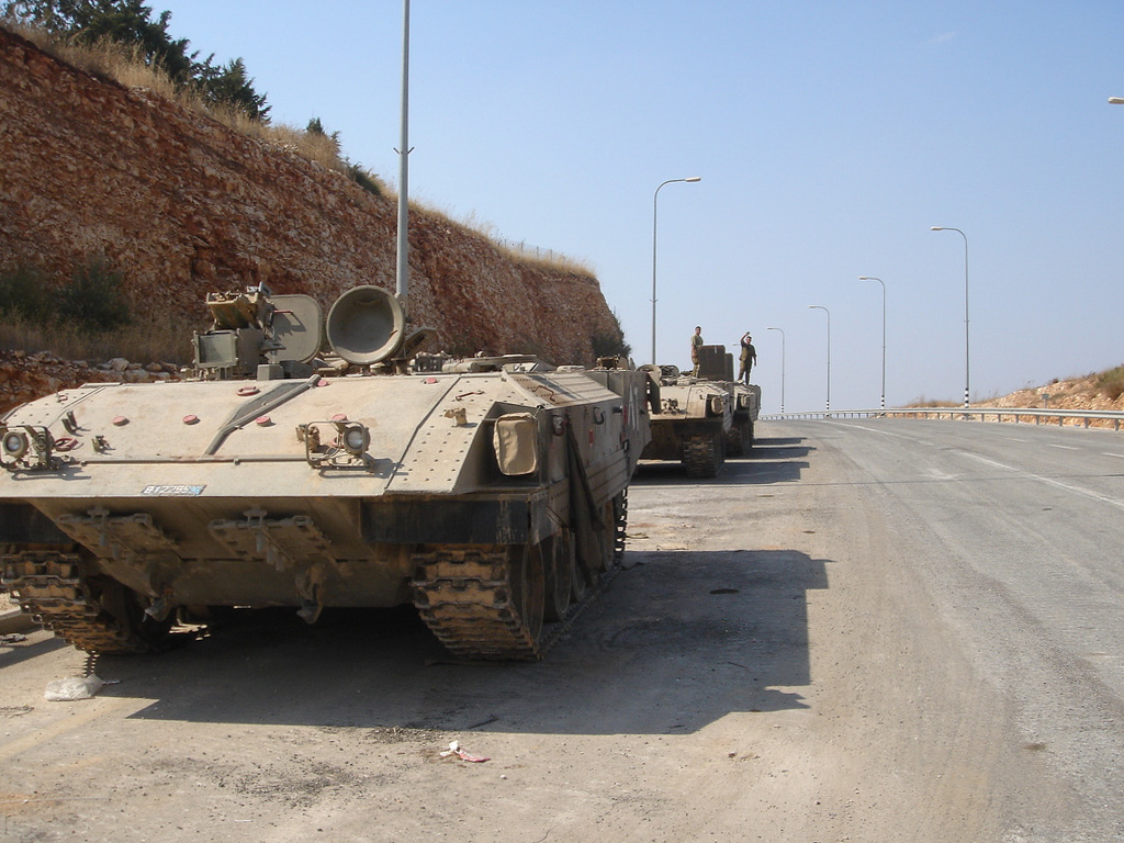 Achzarit armored personnel carriers in northern Israel, 18.8.2006.